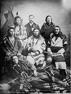 Flathead delegation of six and an interpreter. The Photographer, Charles Milton Bell (1848 - 1893), was the official portrait photographer for the Native American delegations that came to Washington, D.C.